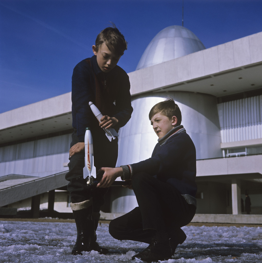 “Young rocket constructors”. Pupils of the 6th secondary school of the city of Kaluga Kolya Kruzhkov (left) and Sasha Goltsov keen on modeling.